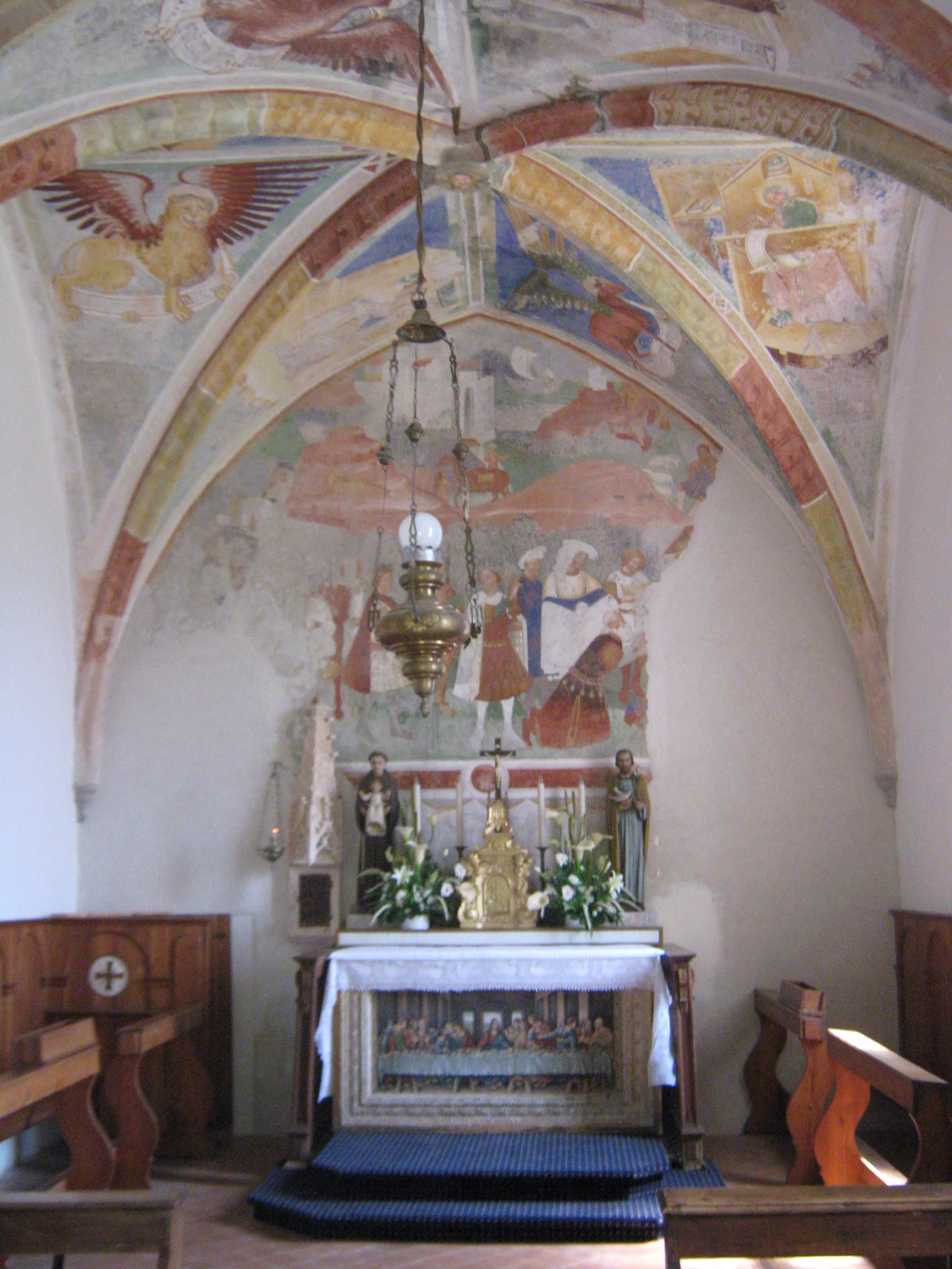 CHIESA DI SANTO SPIRITO L'INTERNO